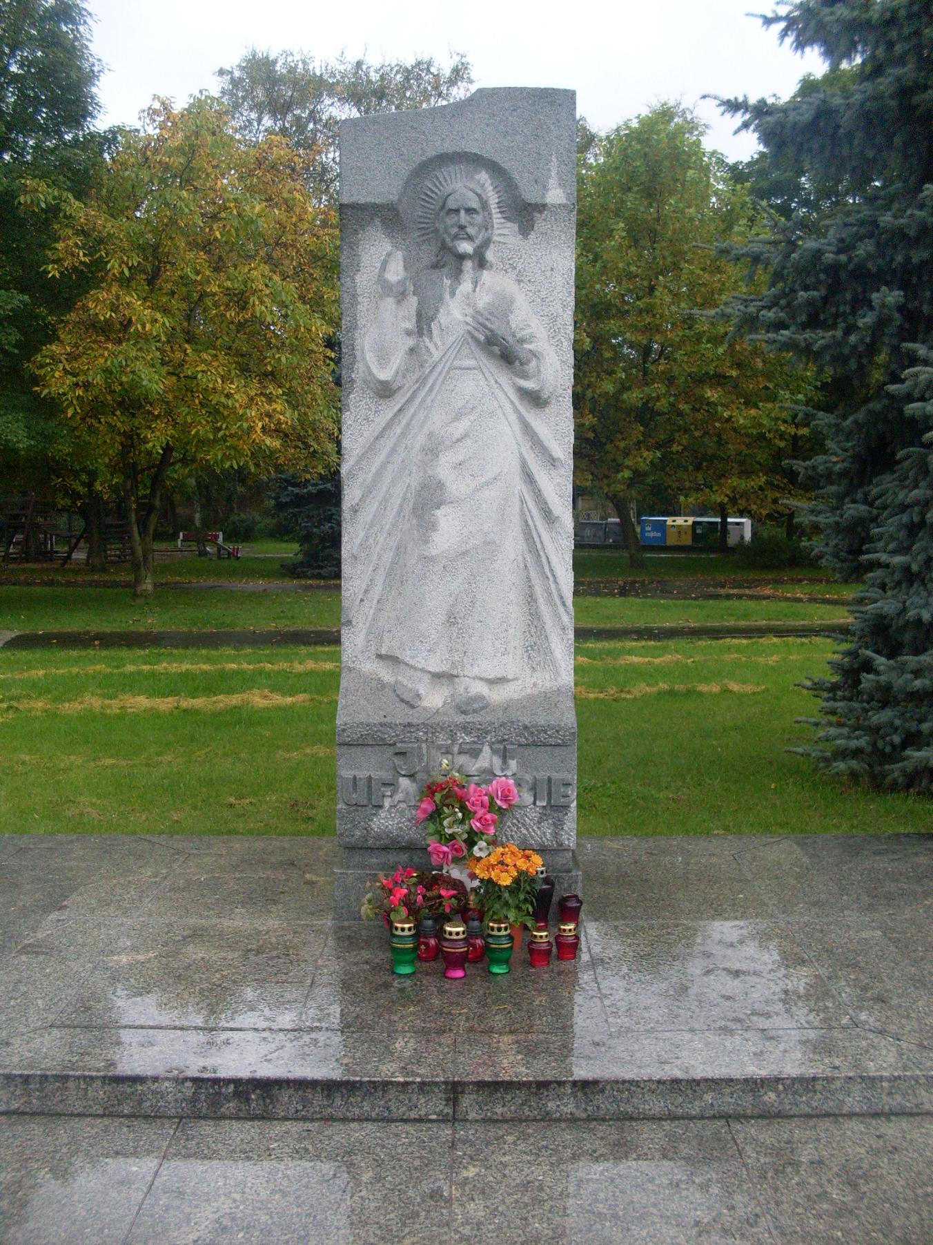 Jesus Christ at Piłsudski Square in Gdańsk.